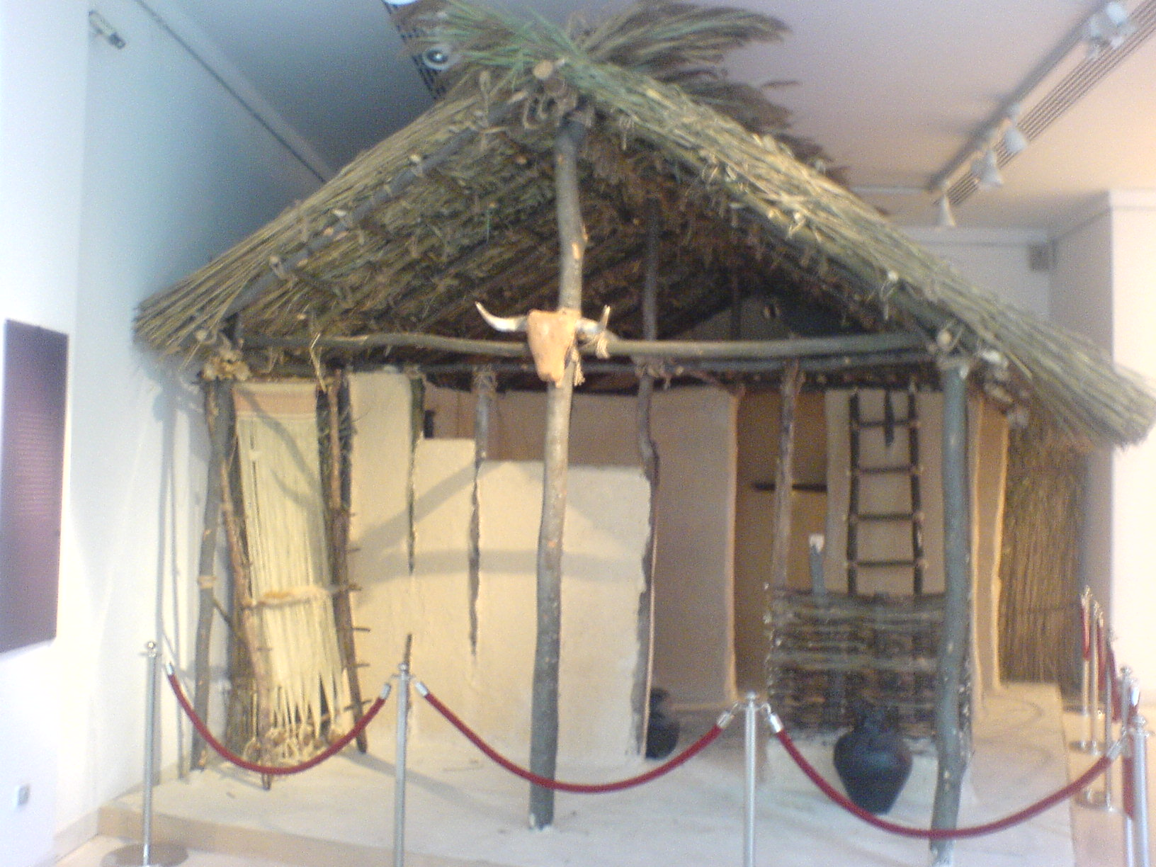 Reconstruction of a house of the Vinca culture